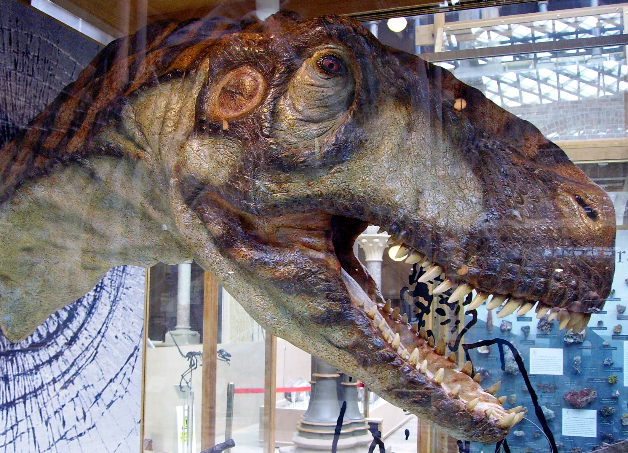 Eustreptospondylus head in the Oxford University Museum of Natural History.